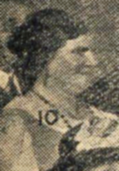 Nr. 10=Alb. Draayer-de Haas